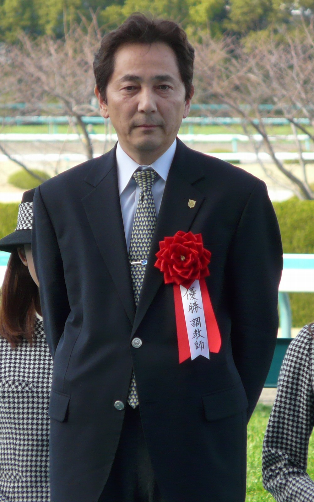 Akio-Adachi20100314